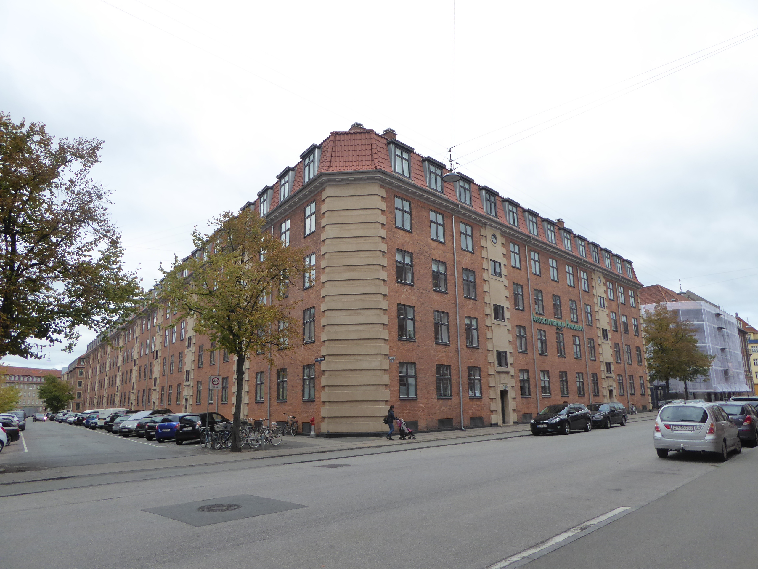 The housing cooperative Nymindegaard at the corner of Lange-Müllers Gade and Nygårdsvej in Østerbro in Copenhagen.